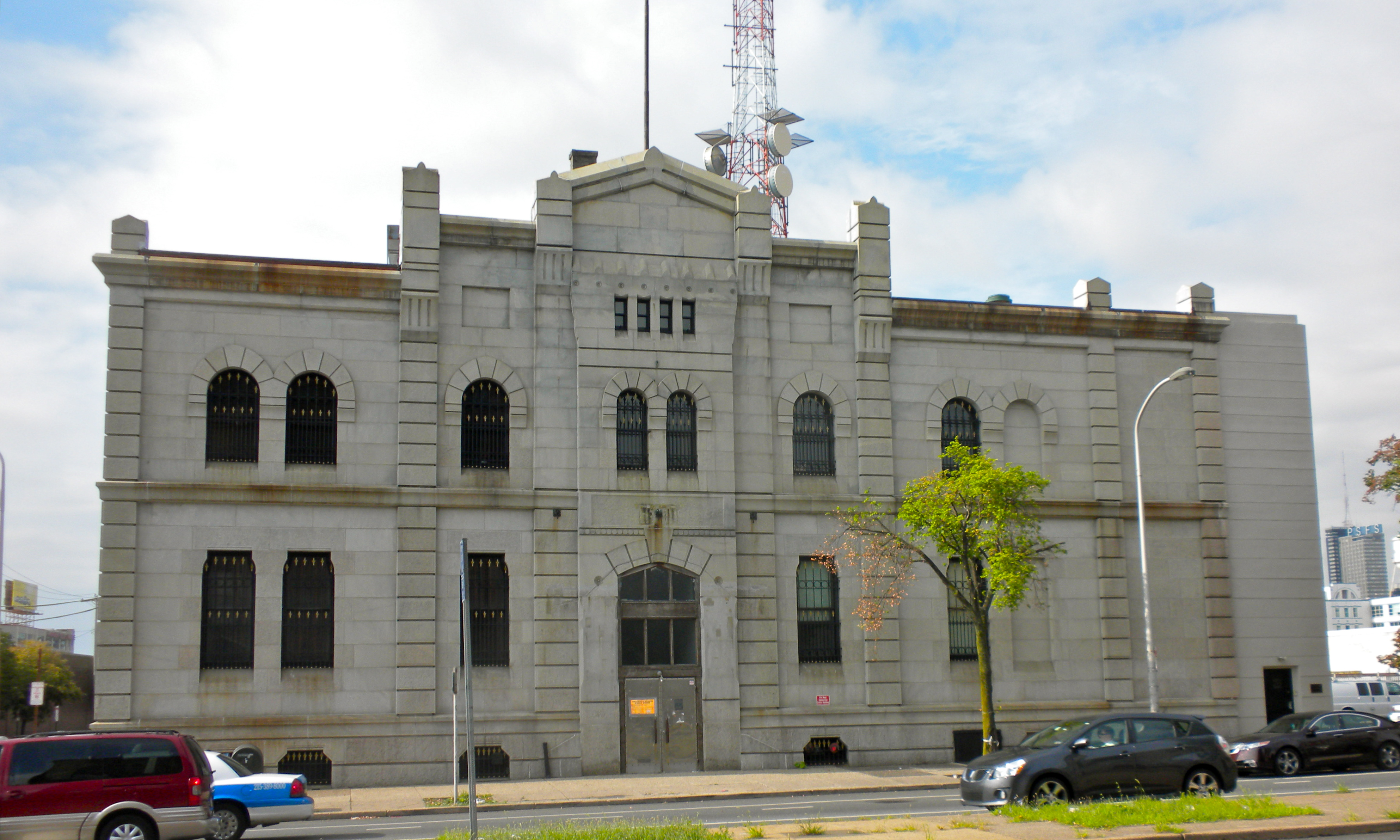 Northern Saving Fund and Safe Deposit Company on the NRHP since September 28, 1977. At 600 Spring Garden St., Philadelphia, PA in the Callowhill neighborhood. Building looks empty, but PNC Bank seems to operate the small bank just south and the parking lot just east of the older building